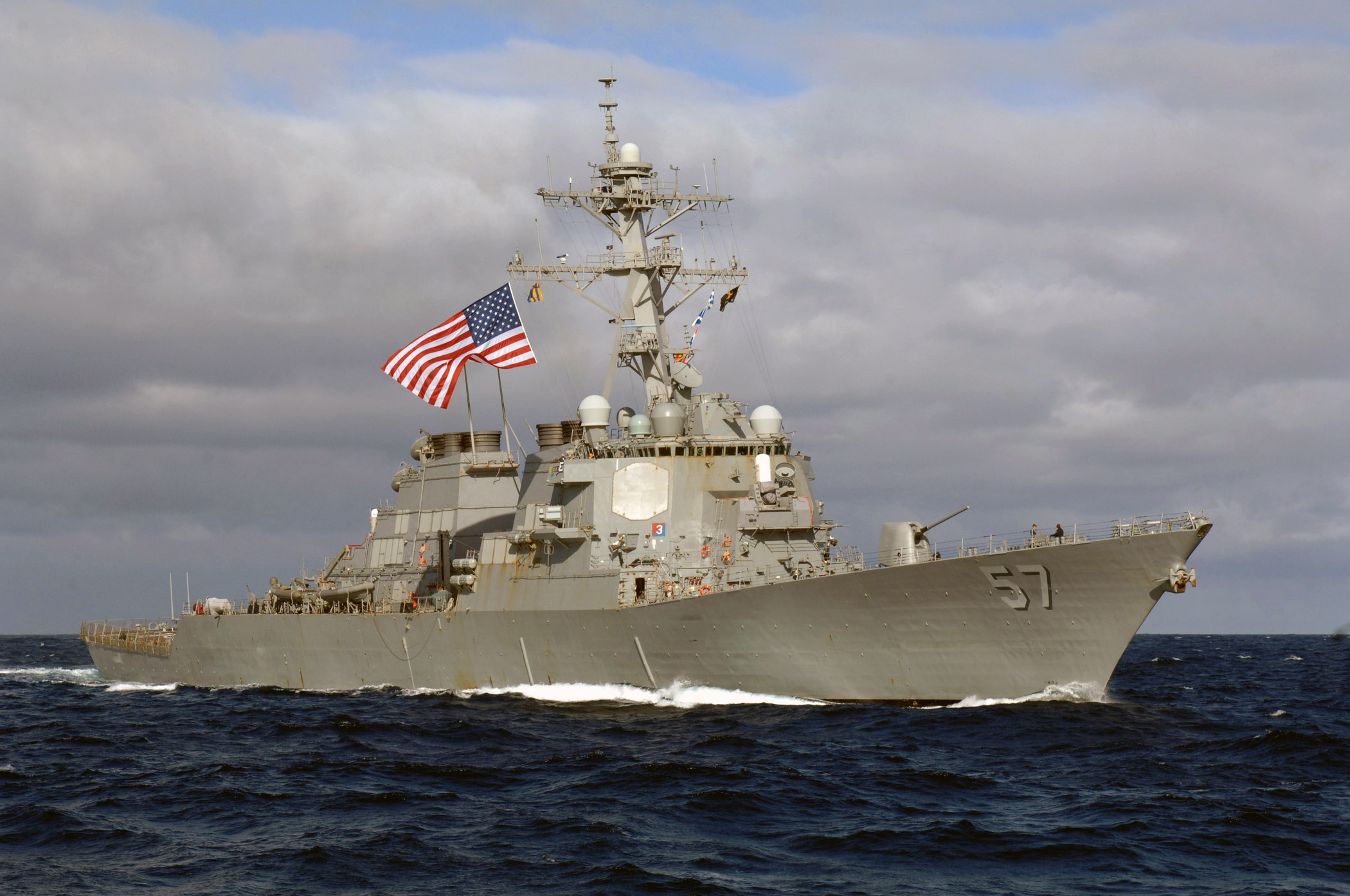 PACIFIC OCEAN (June 20, 2007) - The guided-missile destroyer USS Mitscher (DDG 57) operates in the Pacific Ocean in support of UNITAS Pacific 2007 which supports Partnership of the Americas (POA) 2007. POA focus is to enhance relationships with partner nations through a variety of exercises and events at sea and on shore throughout South America, Latin America, and the Caribbean. U.S. Navy photo by Mass Communication Specialist 2nd Class Lenny M. Francioni (RELEASED)